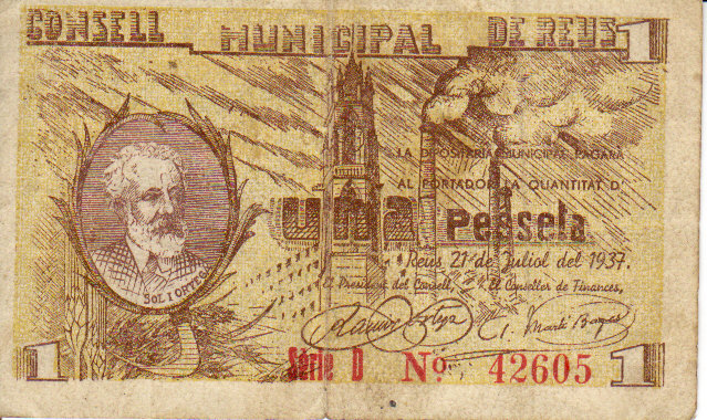 City of Reus (Catalonia), local bank note, observe Scan from own collection